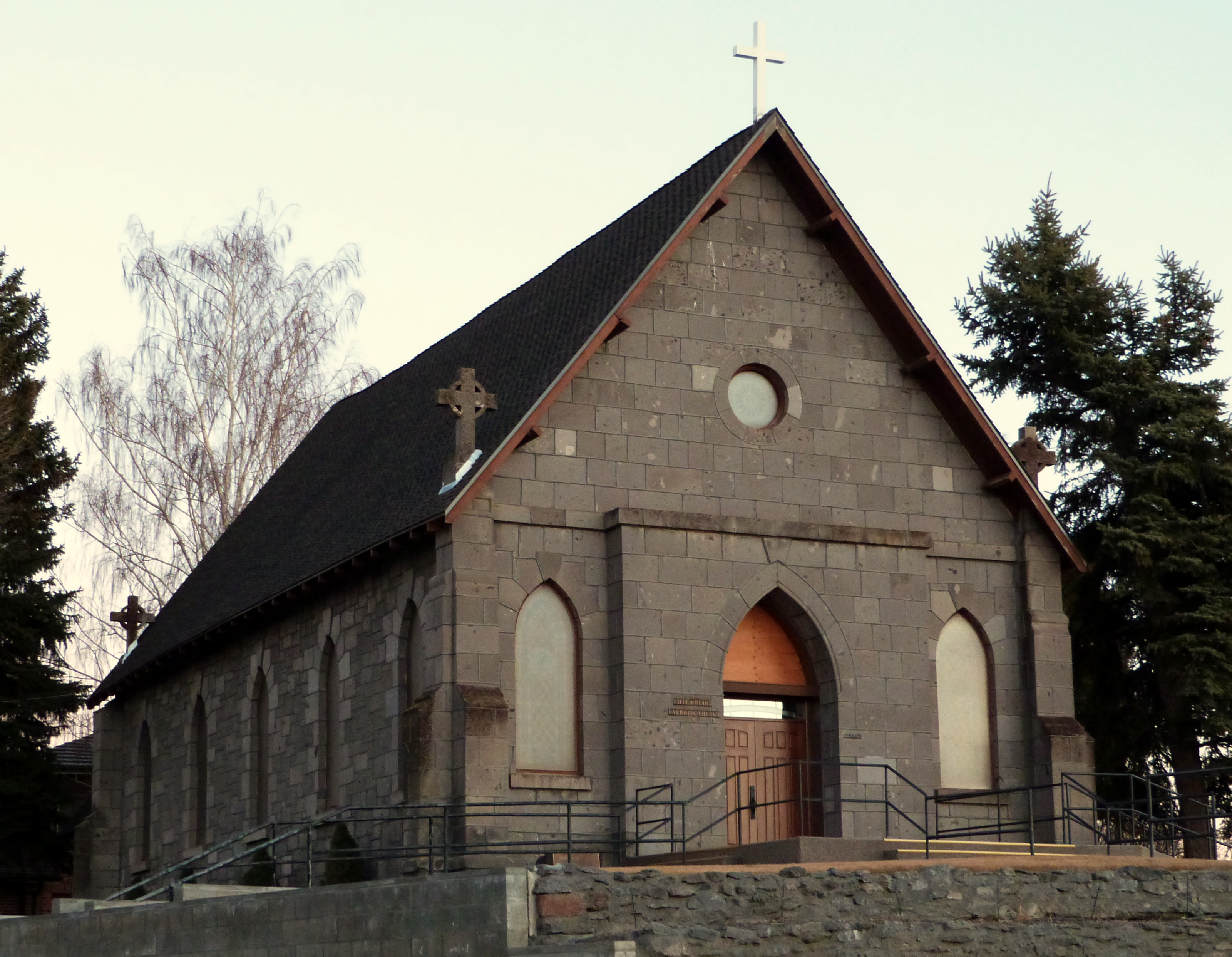 The historic Sacred Heart Catholic Church (built 1883), located at 507 East 4th Street in Alturas, California, United States, is listed on the US National Register of Historic Places.